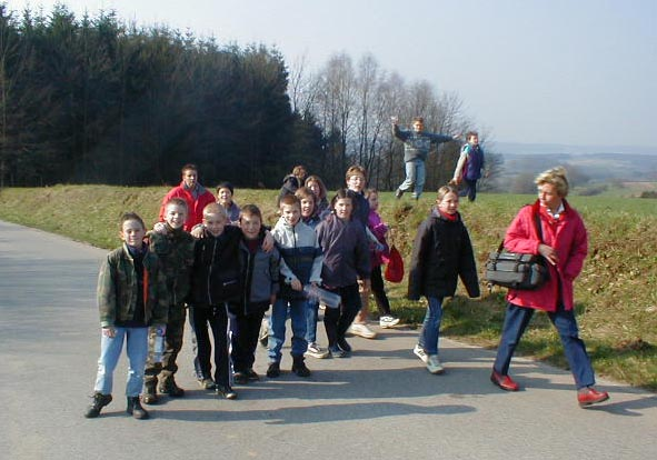 Children of Villance for a study walk. Walon: Efants del sicole di Viyance e poermonnåde po ene sicole di walon.